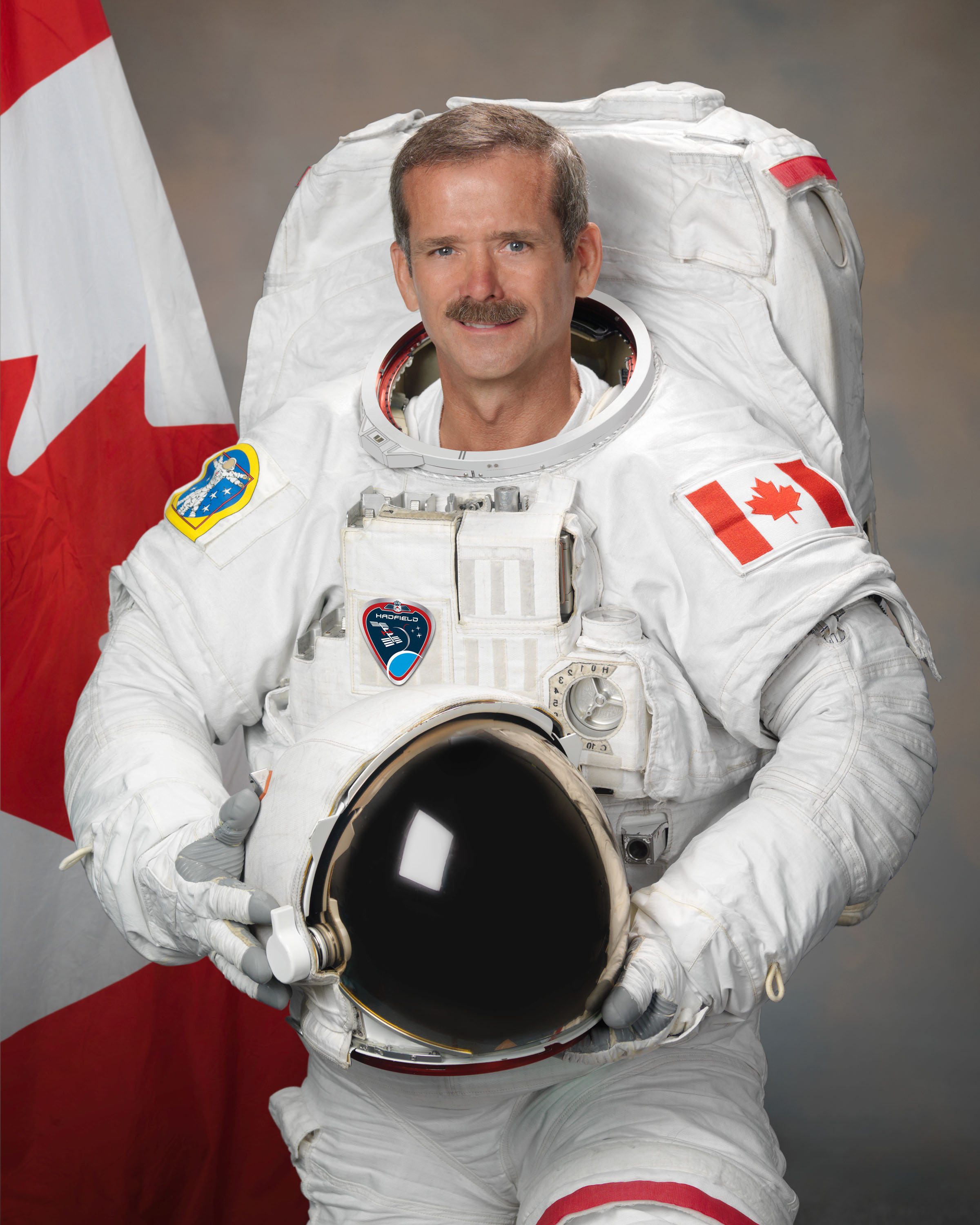 Canadian Space Agency astronaut Chris Hadfield, attired in a training version of his Extravehicular Mobility Unit (EMU) spacesuit.